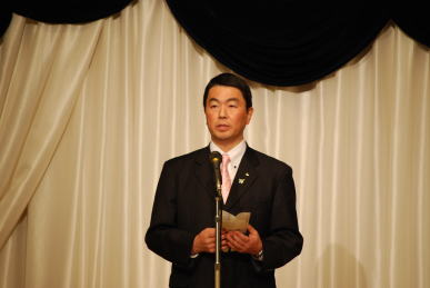 Miyagi Prefecture Governor Yoshihiro Murai (村井嘉浩 ) at Ministry of Defense Tohoku Defense Bureau seminar in February 2011